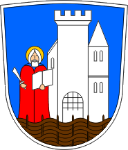 COA-Kočevje